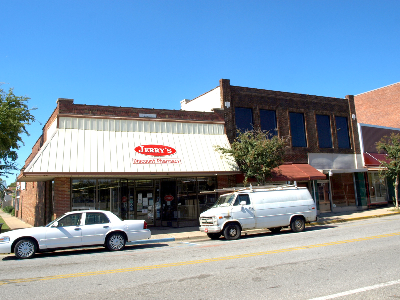 Buildings on Wall Street in Gadsden, Alabama, part of the Alabama City Wall Street Historic District